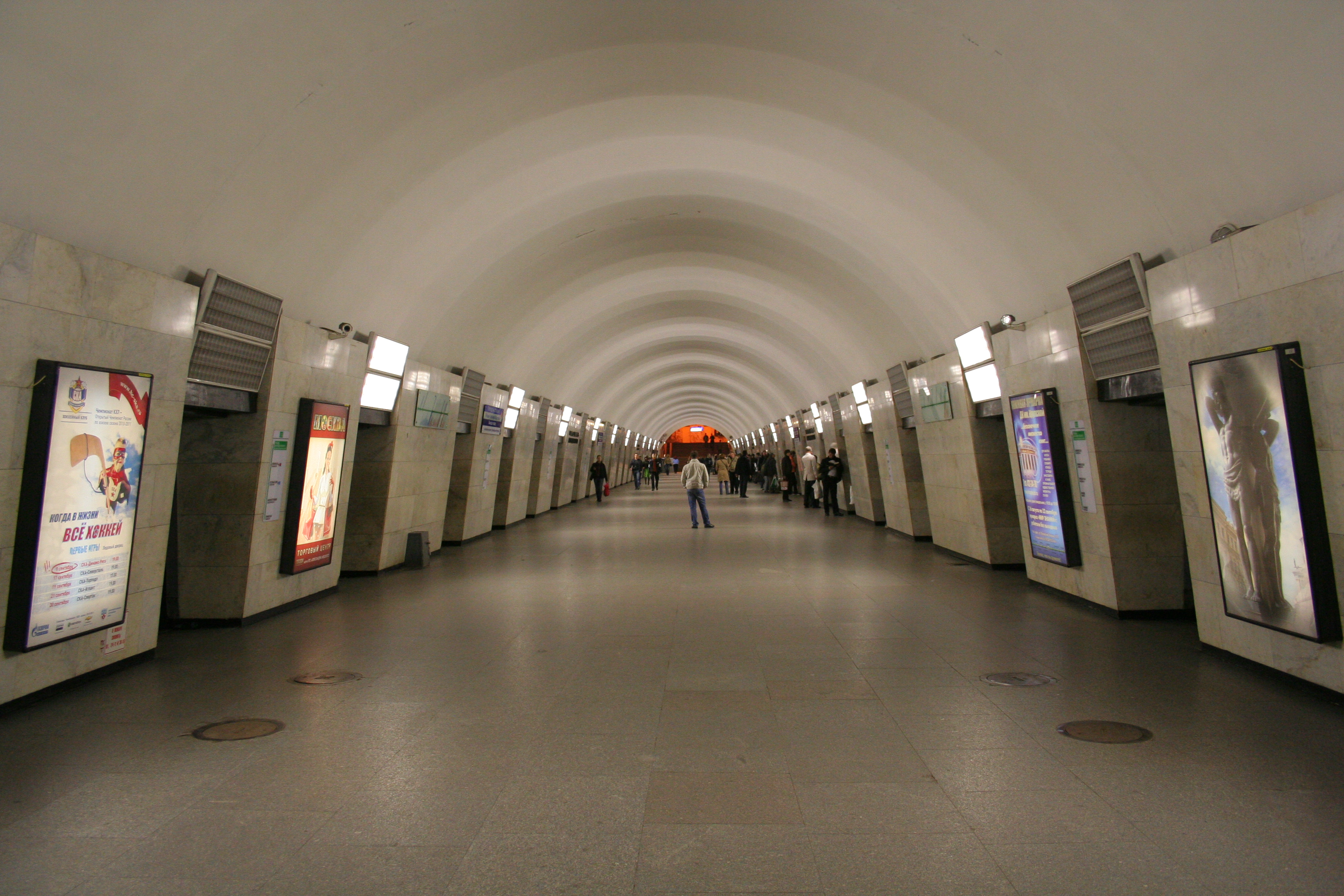 Ploshchad Alexandra Nevskogo-1 station of Saint Petersburg Metro